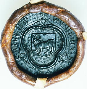 Seal of Milota of Klamoš from 1401